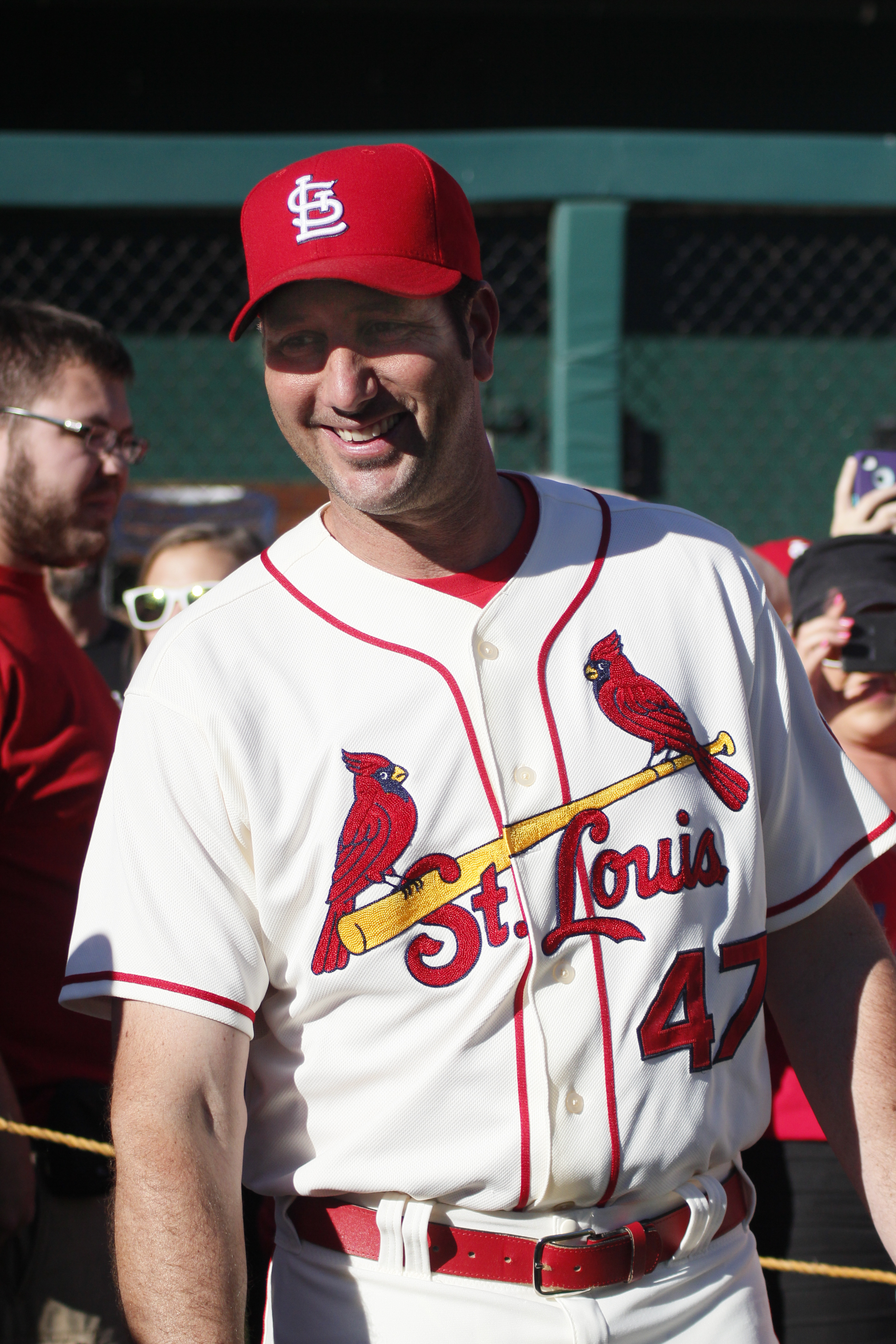 cardinal coach